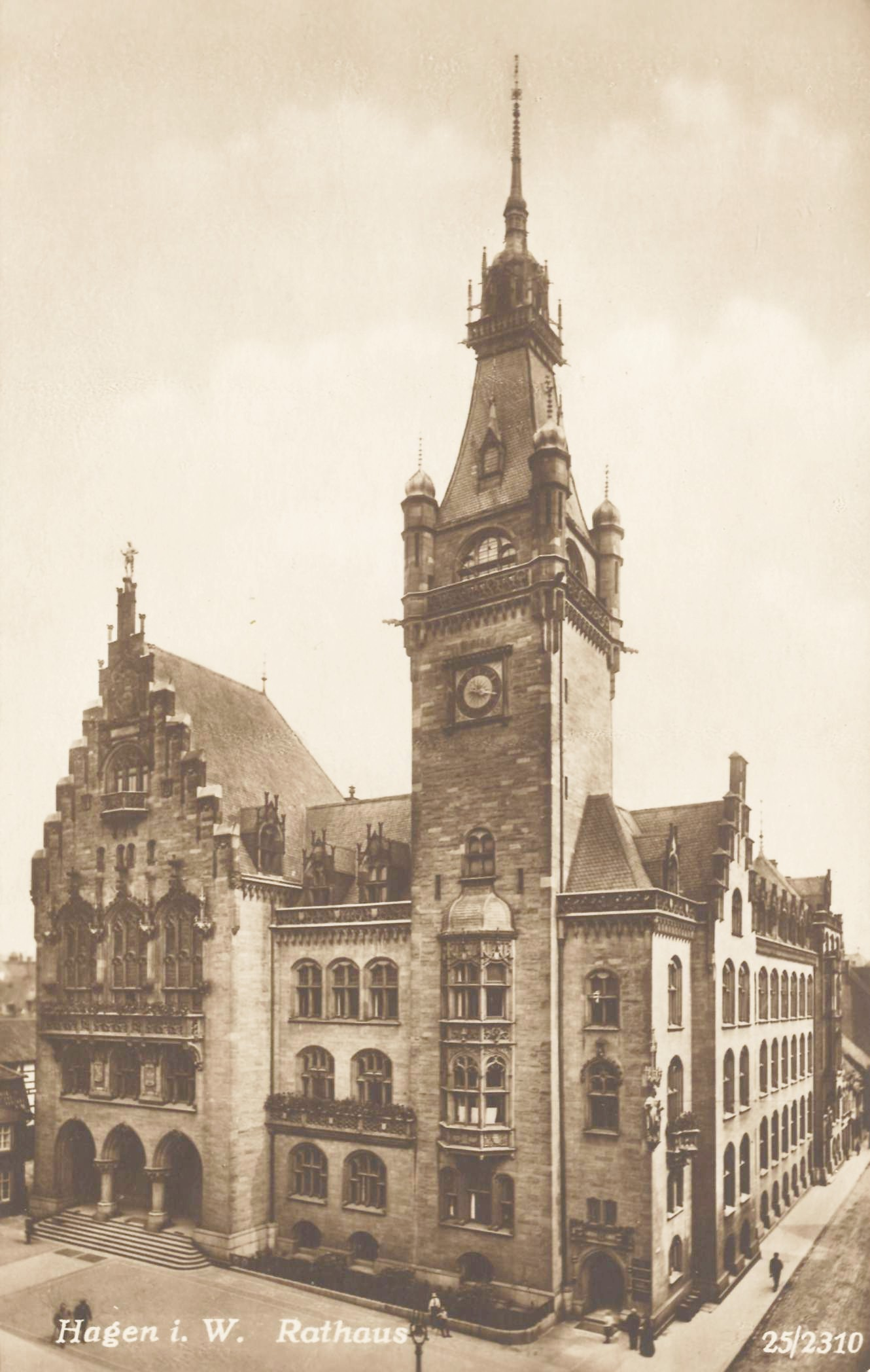 Town Hall in Hagen at 1925